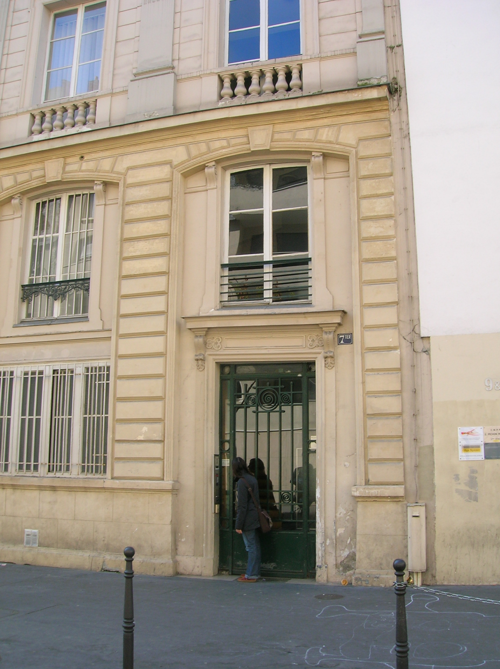 Head office of the French Gymnastics Federation in Paris (7 ter cour Petites Ecuries, 10th arrondissement).